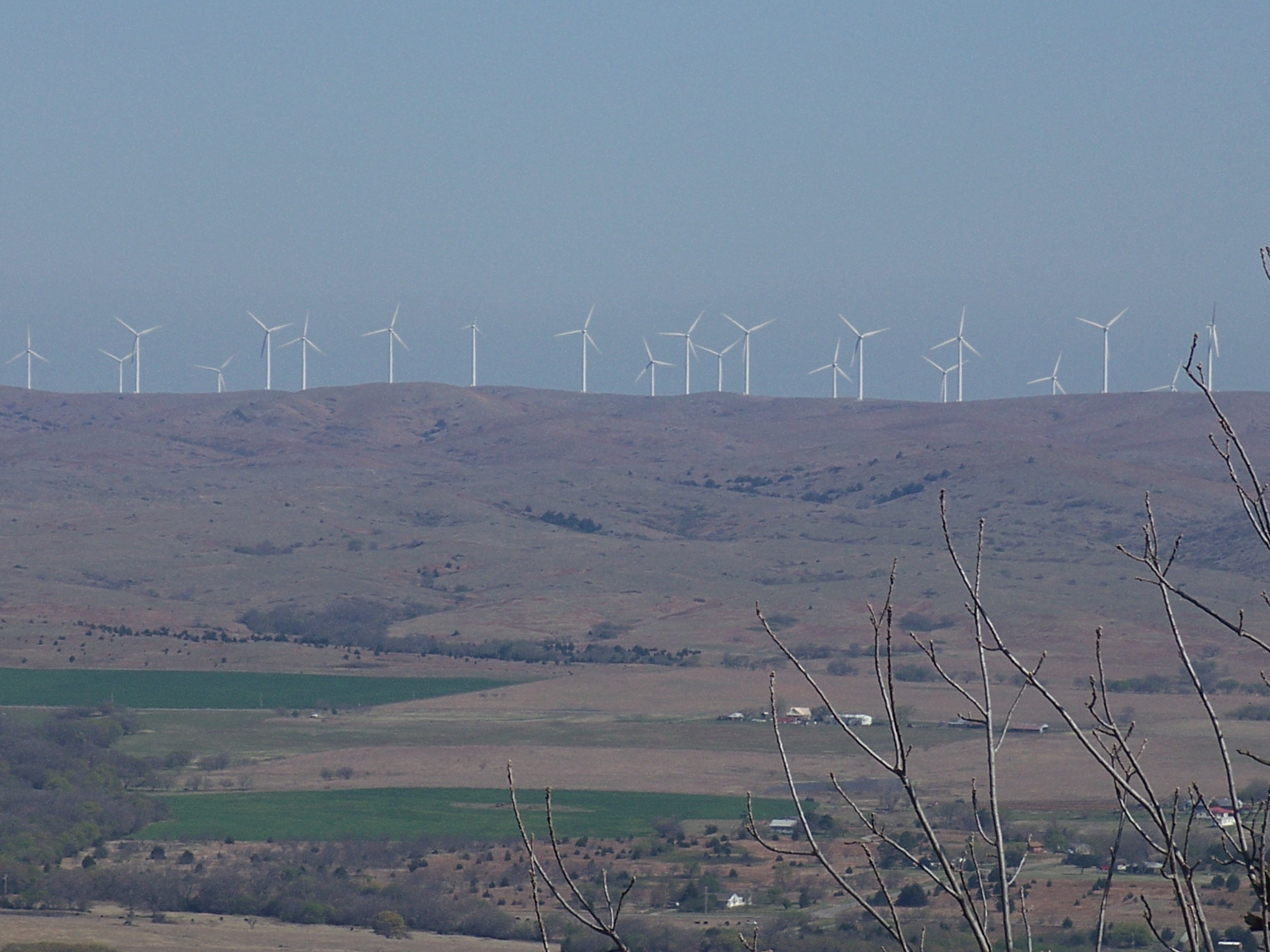 The Blue Canyon Wind Farm from the access road of Mount Scott, Oklahoma.